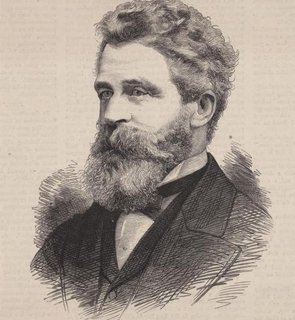 A portrait of Sir Daniel Cooper by Edmund Thomas (1827-1867), which appeared in The Graphic, London, Dec. 6, 1879, p. 561.